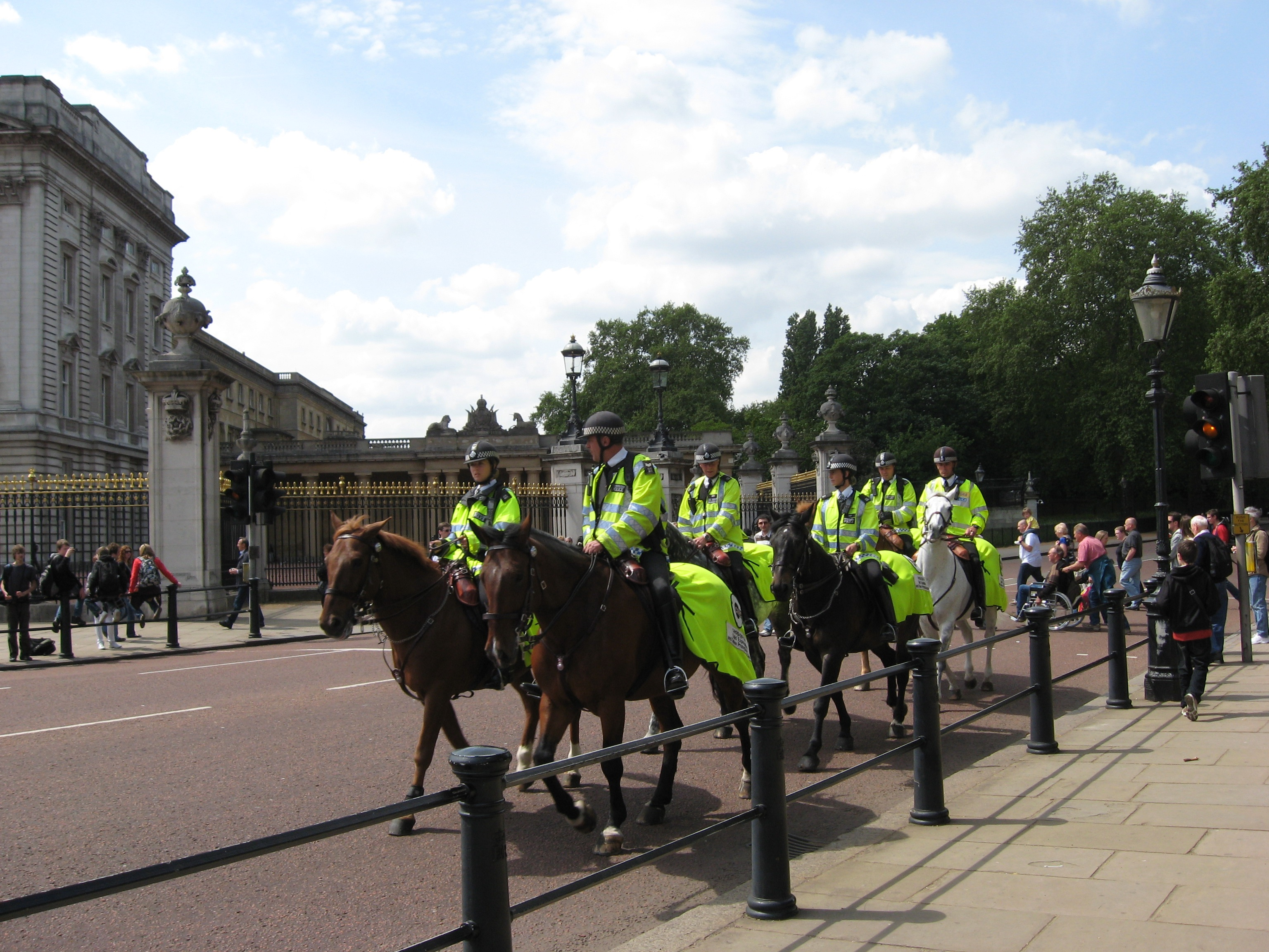 Mounted Metropolitan Police Officers moving from Constitution Hill in front of Buckingham Palace, London